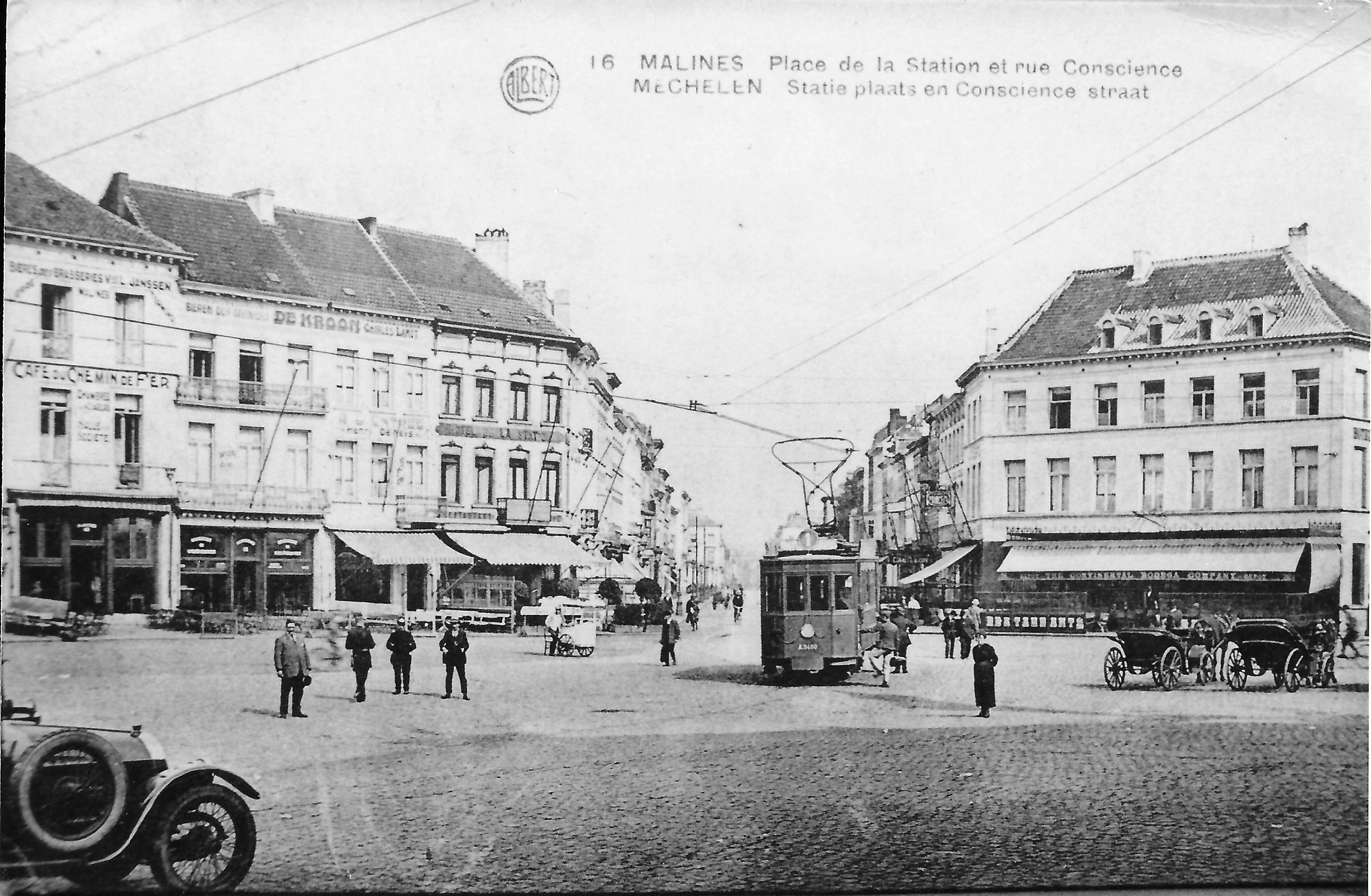 Local city tramline 1 arriving by the railway station in Mechelen. The dark coloured tram is of the EN compagny (Cie de l'Electricité du Nord de la Belgique). Later trams where of type File:NMVB Stadstram Mechelen.JPG and ligth coloured.